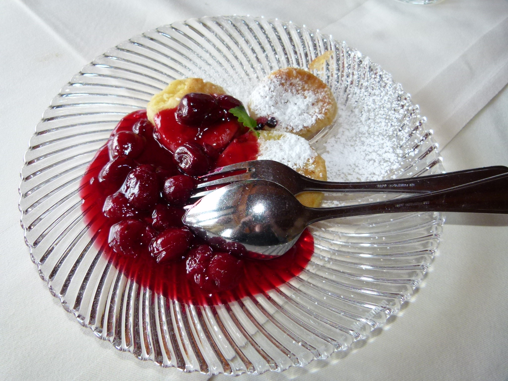 Oberlausitzer Quarkkeulchen mit heißen Sauerkirchen, Panorama-Restaurant Bastei, Sächsische Schweiz